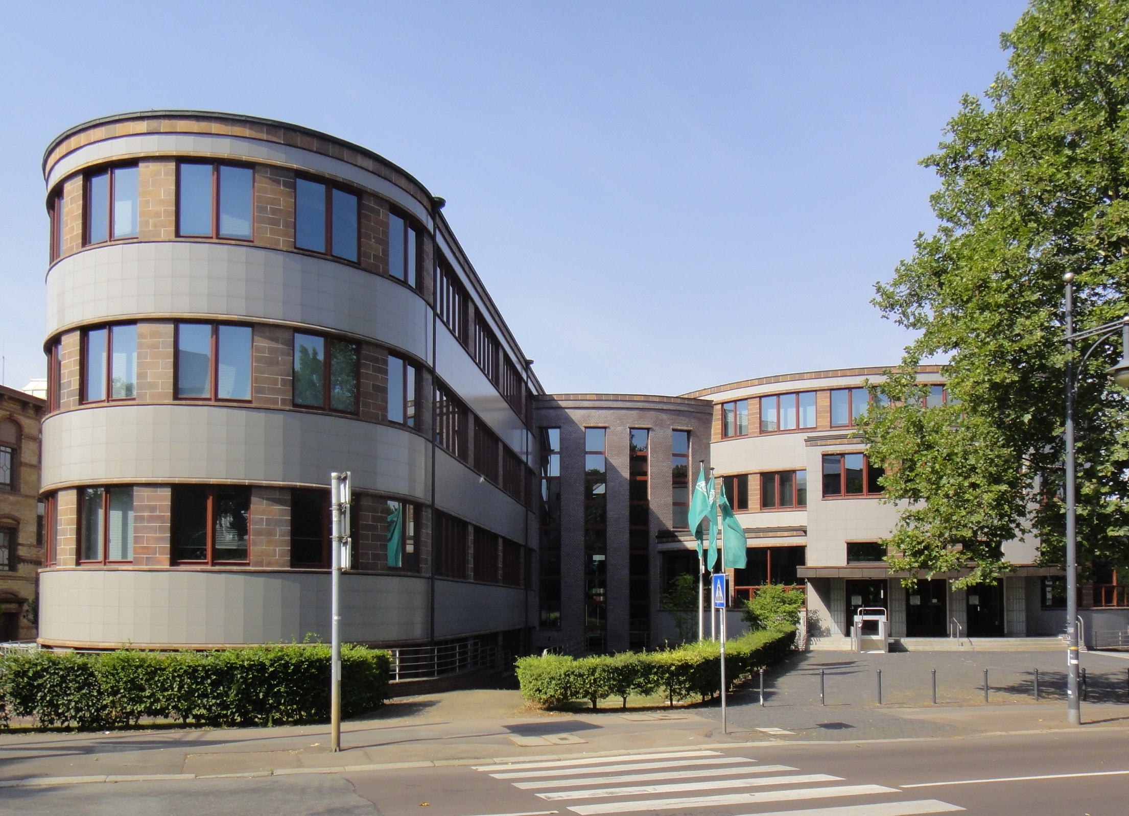 Halle, AOK-building, Robert-Franz-Ring 16